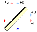 Phase shift in a beam splitter